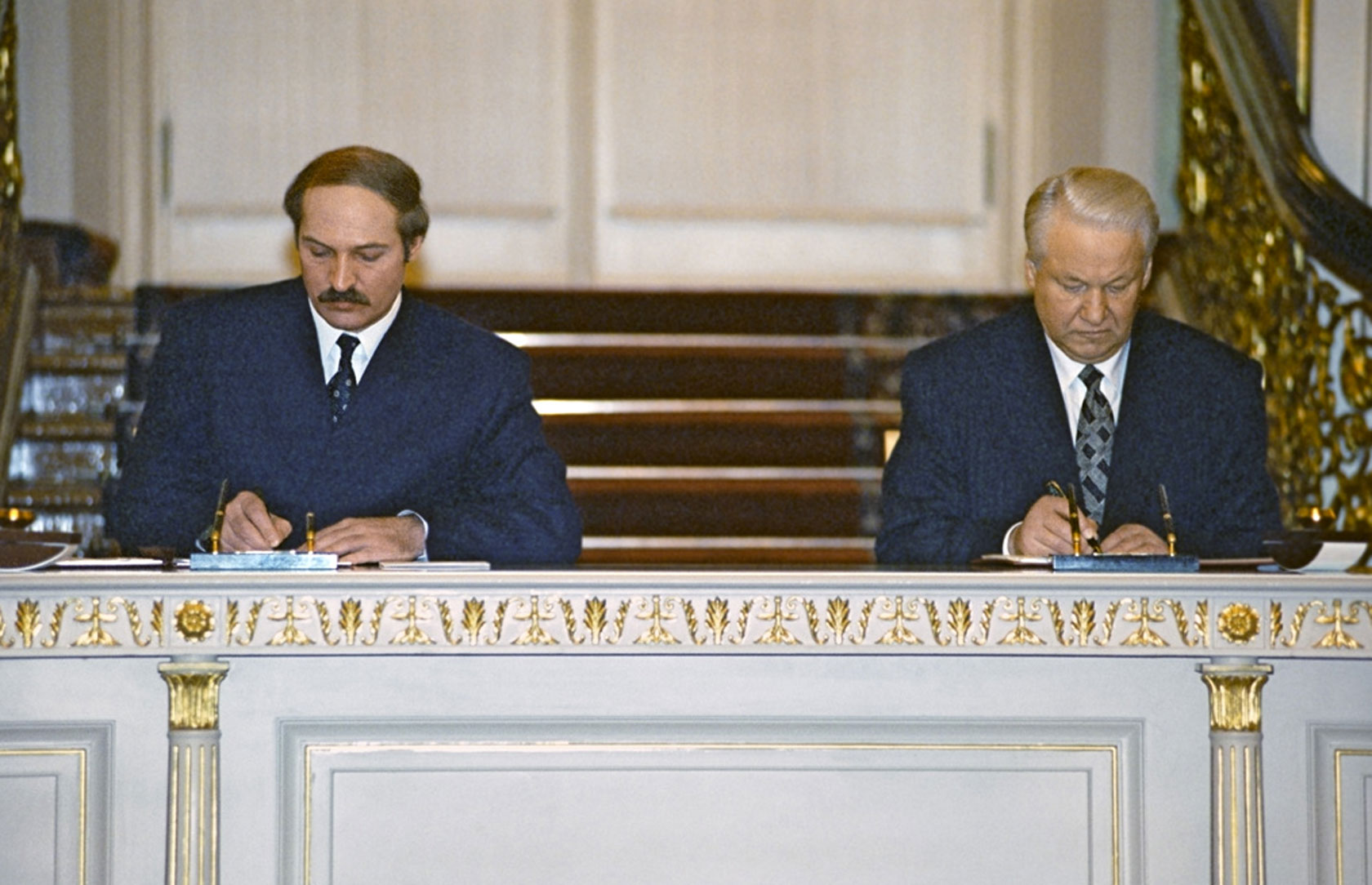 “Signing Treaty on Establishing Russian-Belarusian Union”. Official ceremony of signing Treaty on Establishing Russian-Belarusian Union at St. Vladimir Hall of the Grand Kremlin Palace. Russian President Boris Yeltsin and Belarusian President Alexander Lukashenko ink Treaty.